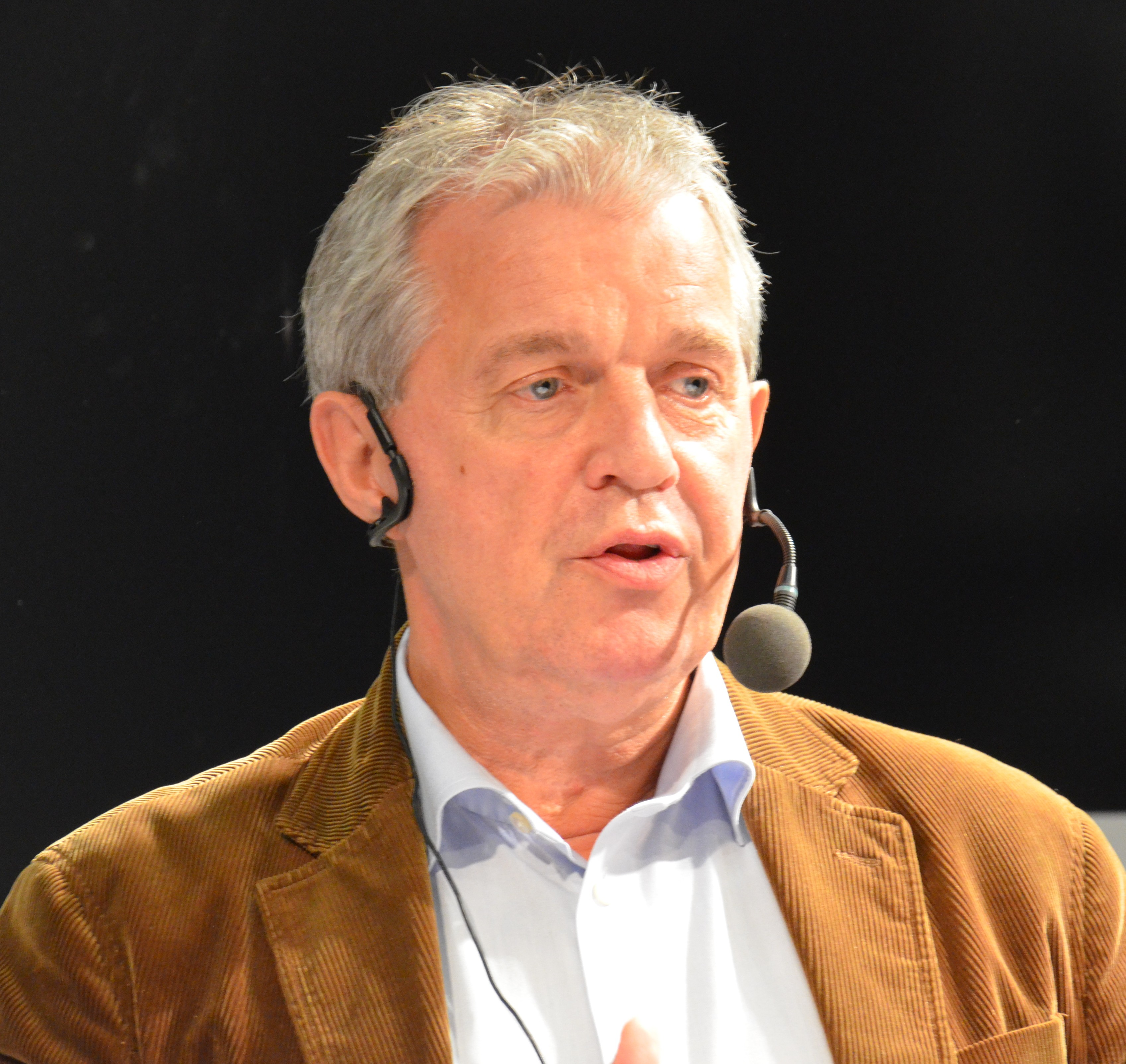 Swedish civil servant Kennet Johansson